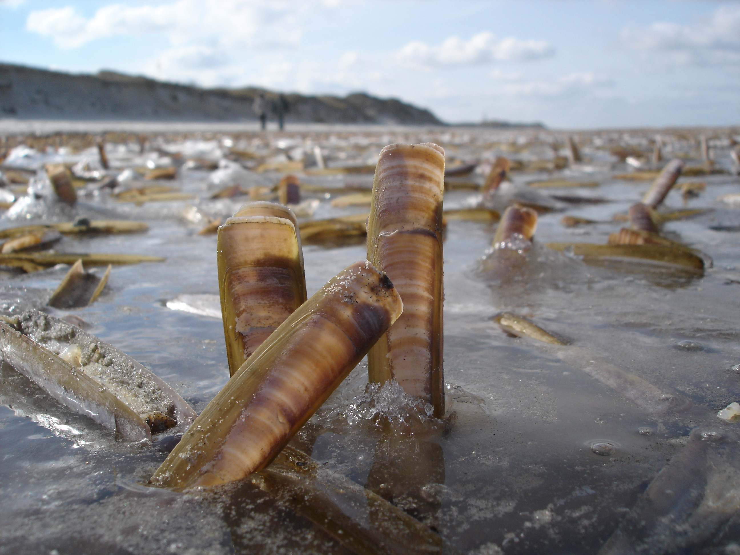 Atlantic jackknives on the beach of Juist Island. The upright ones try to bury themselves in the sand to avoid being eaten by the gulls. The lying shells are already empty. The water is pooled behind a dam of empty shells and is covered with a thin ice alyer of some millimeters.